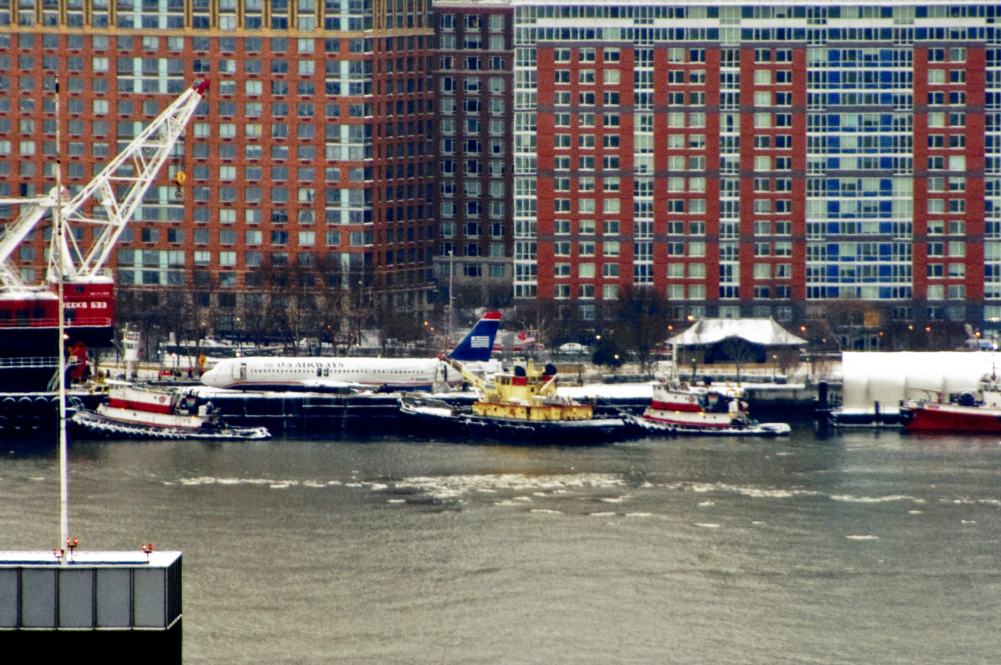 US Airways Flight 1549 on a barge after being raised from the Hudson River. Shot from Jersey City, NJ.